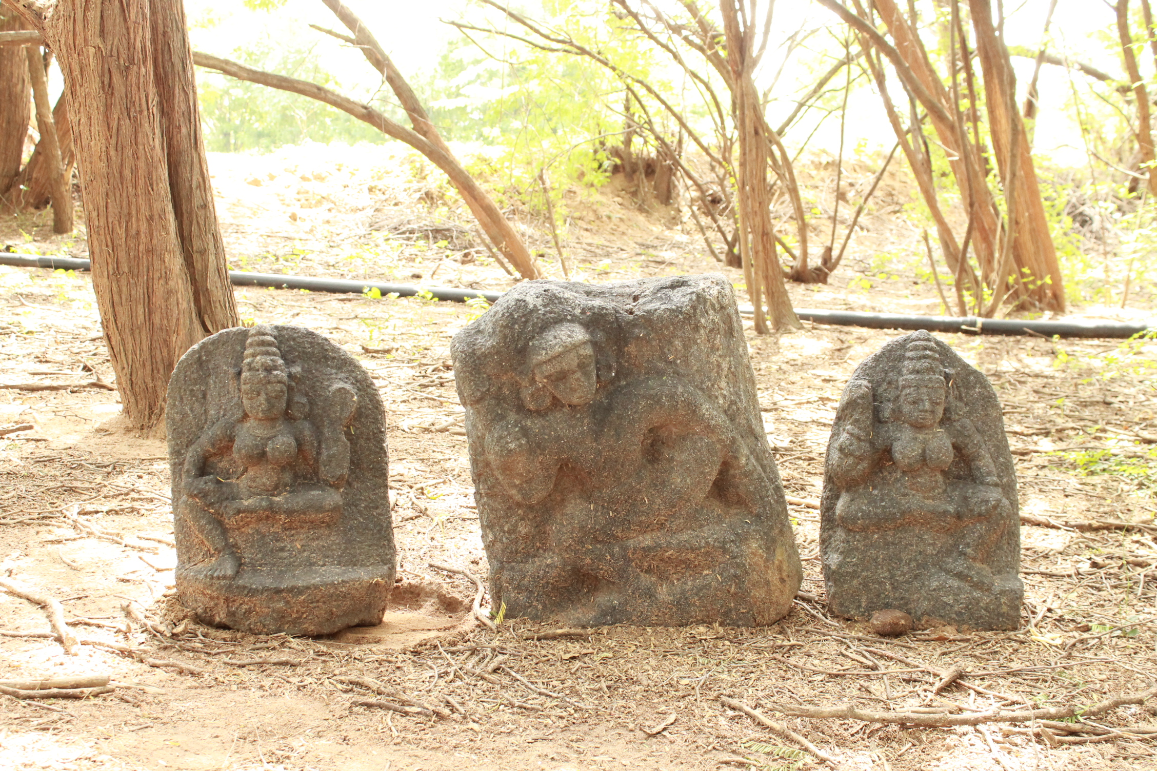 Location: Marudur, Pudukkottai District, Tamil Nadu, India.